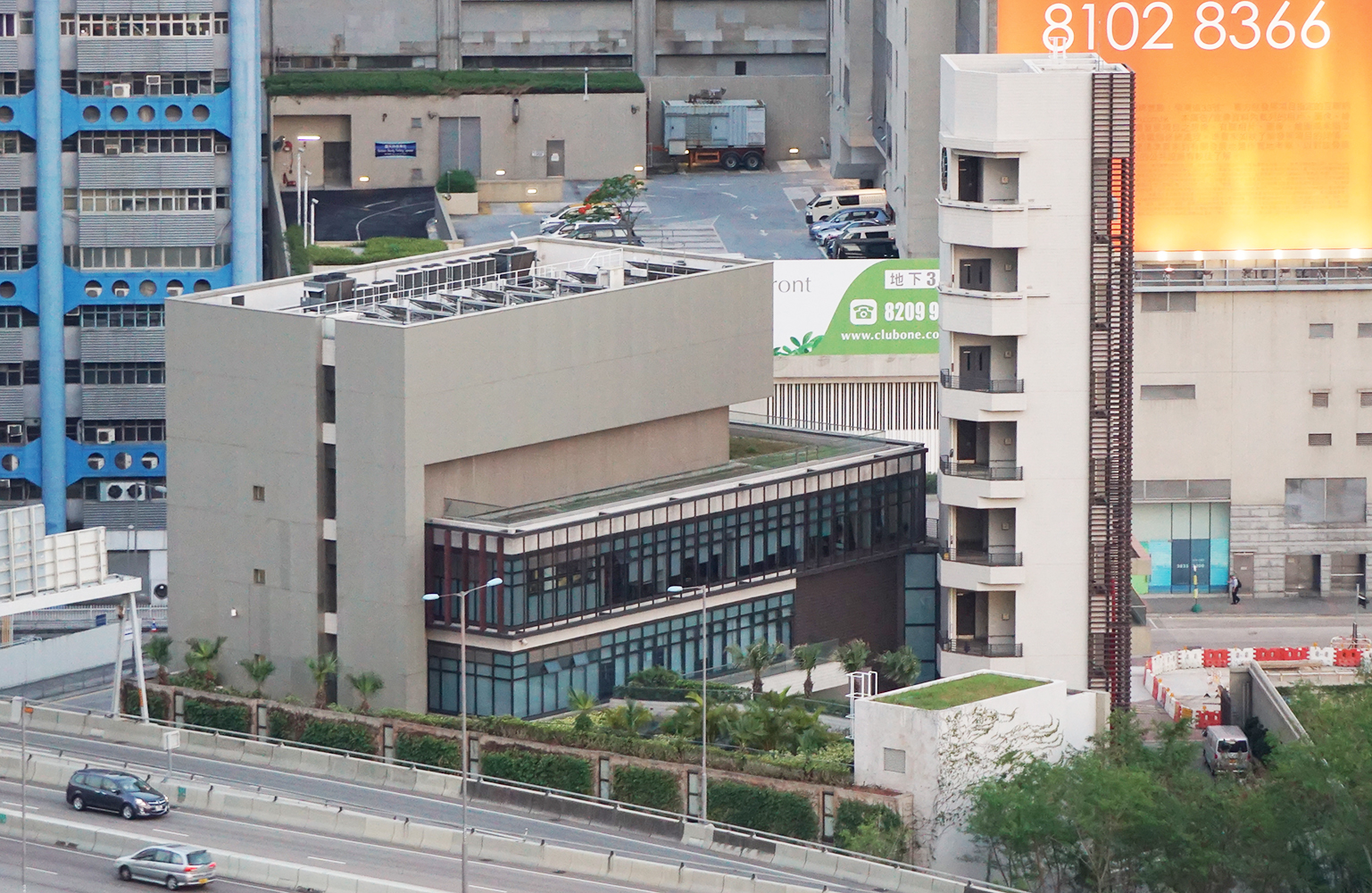 Kai Tak Fire Station in Kai Tak, Hong Kong.